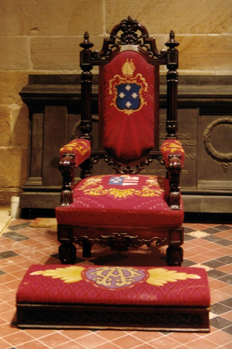 Sydney, St. Andrew's Anglican Cathedral,the Chair of Bishop Broughton, first Bishop of Sydney, appears to be 17thC, textile mid 20thC designed and embroidered by a member of the parish.